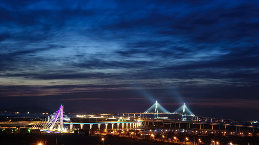 Night view of Incheon bridge